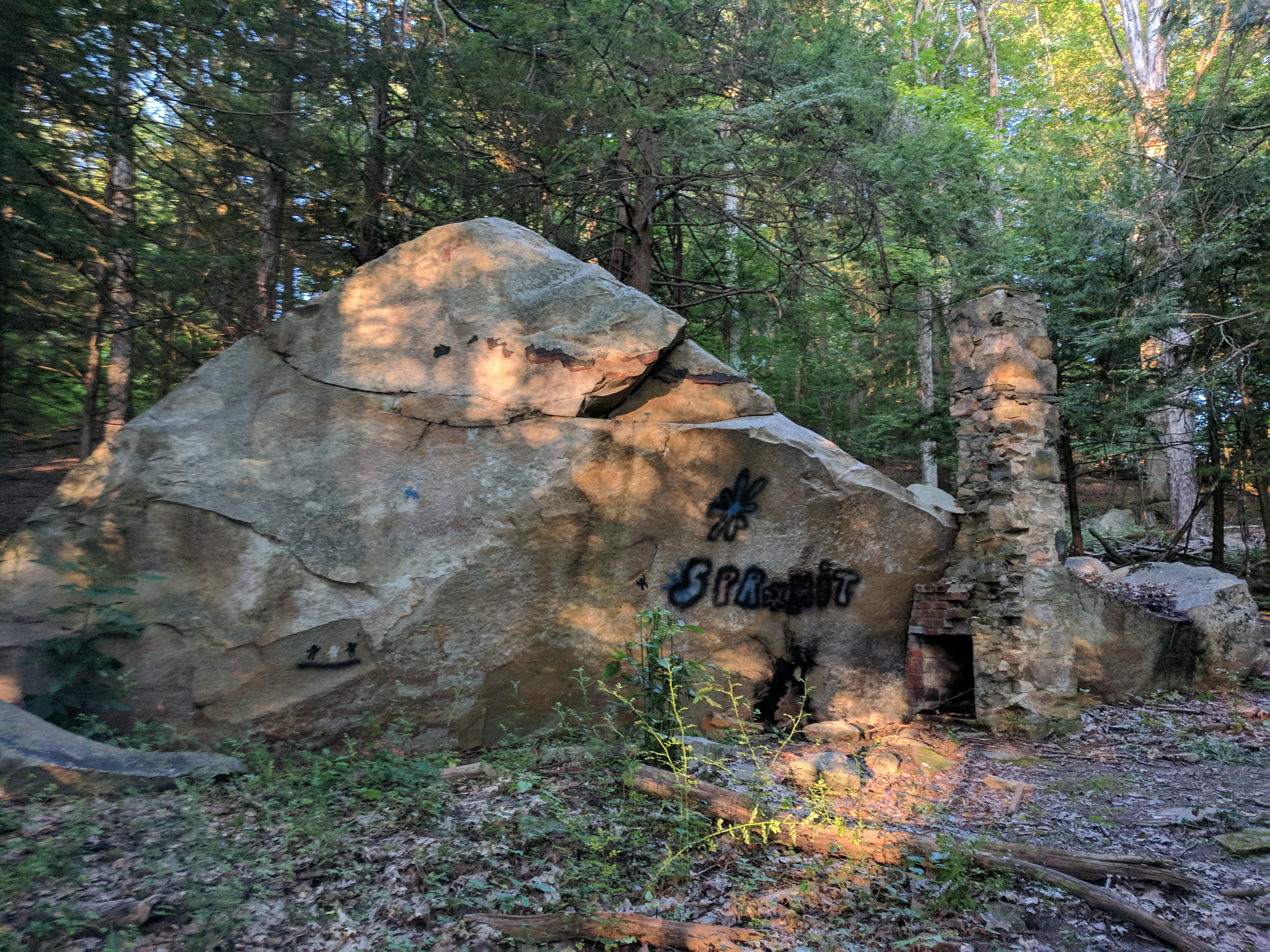 This photo shows Bard College at Simon's Rock's namesake, which is basically a rock with a chimney.